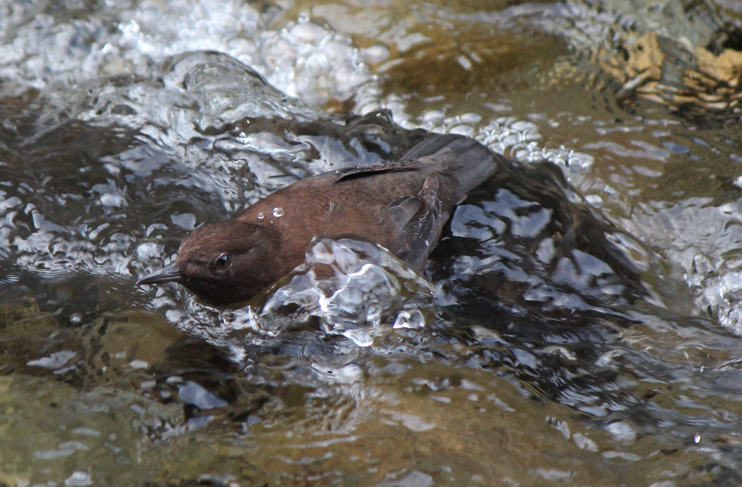 Brown Dipper (Cinclus pallasii pallasii Temminck, 1820 ), swimmingin river, in Mie prefecture, Japan.